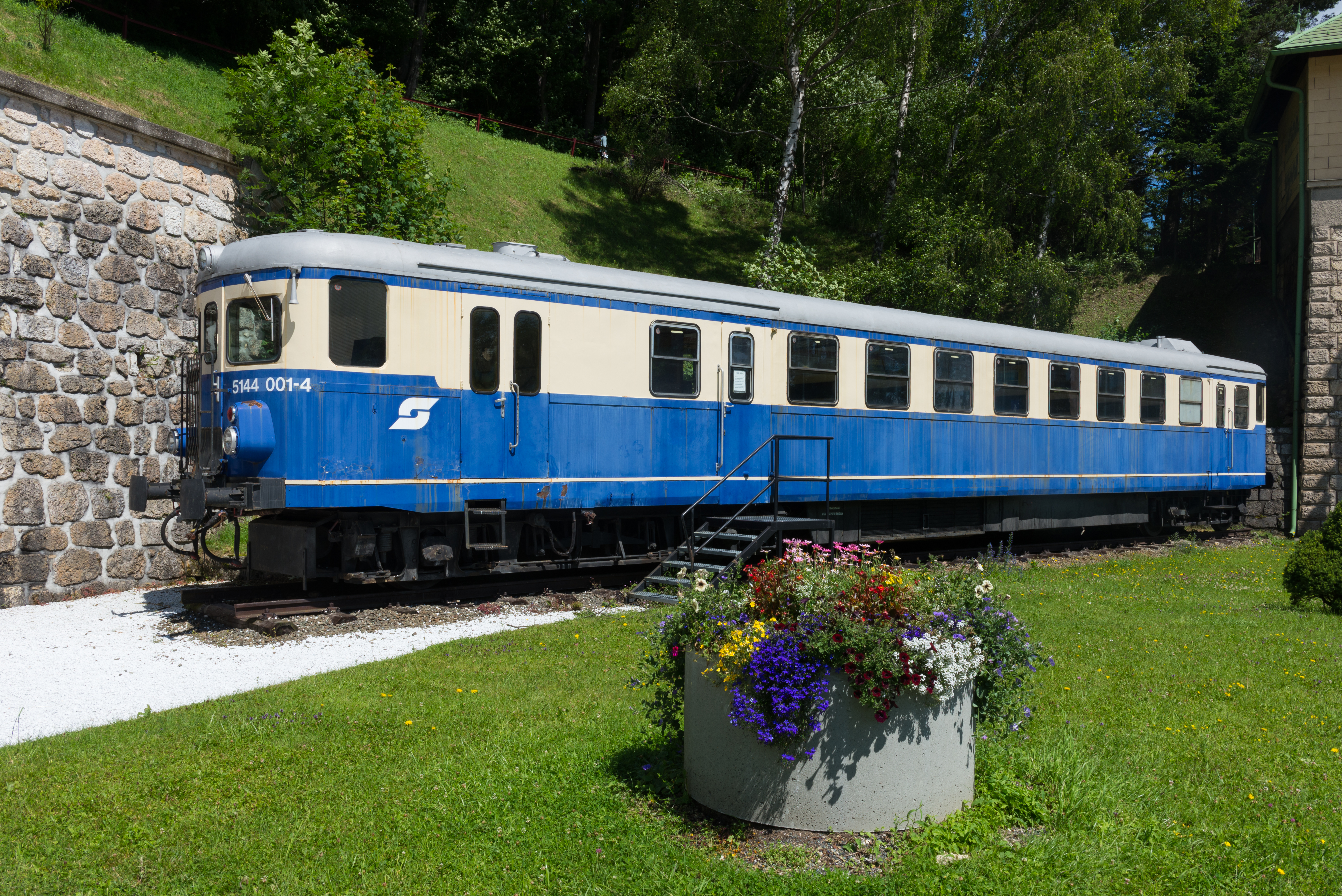 ÖBB 5144-001-4, placed as a monument at the train station Semmering.